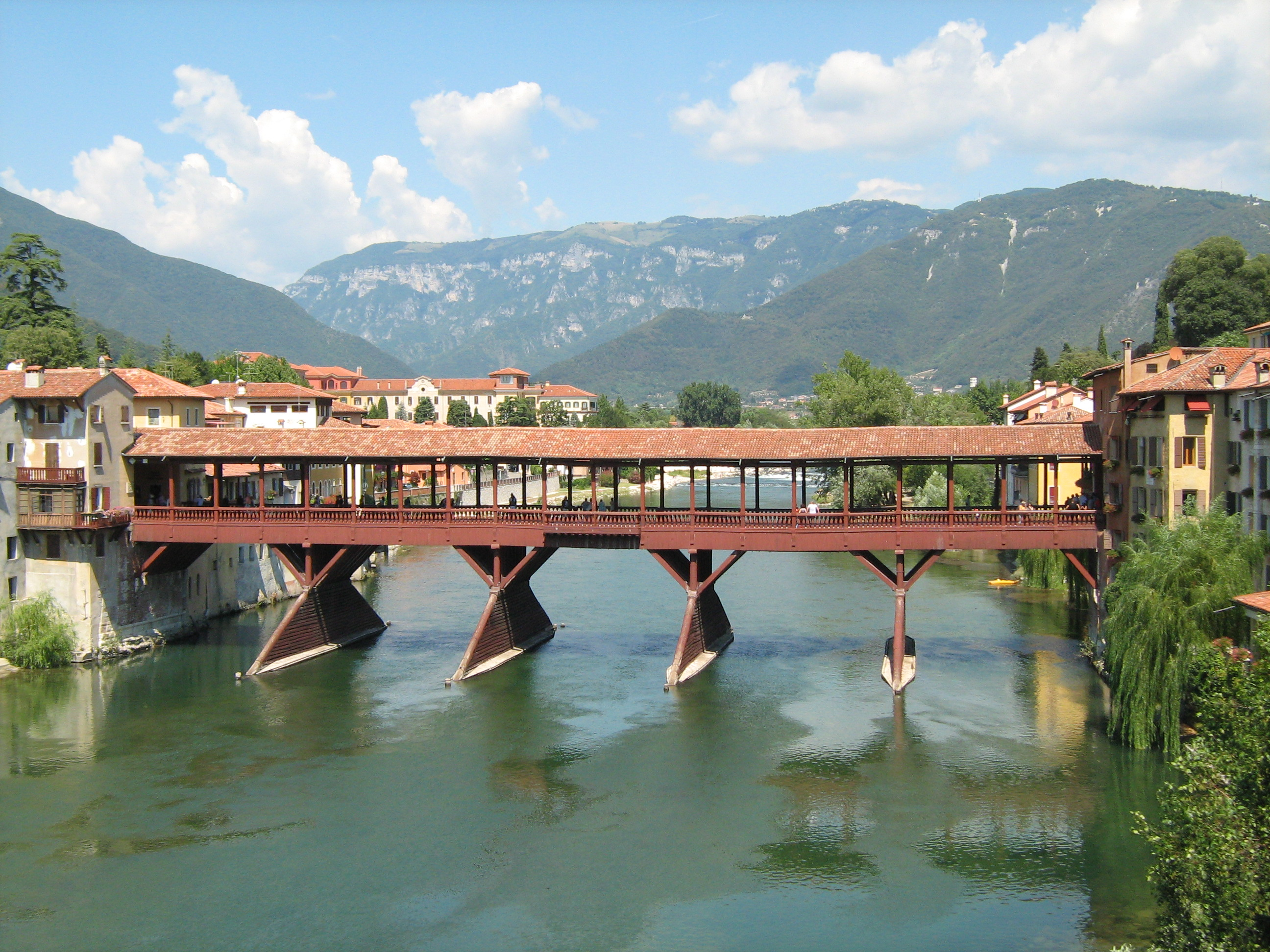 Andrea Palladio's bridge 'Ponte Veccio' in Bassano del Grappa in Veneto, Italy. August 11, 2012.